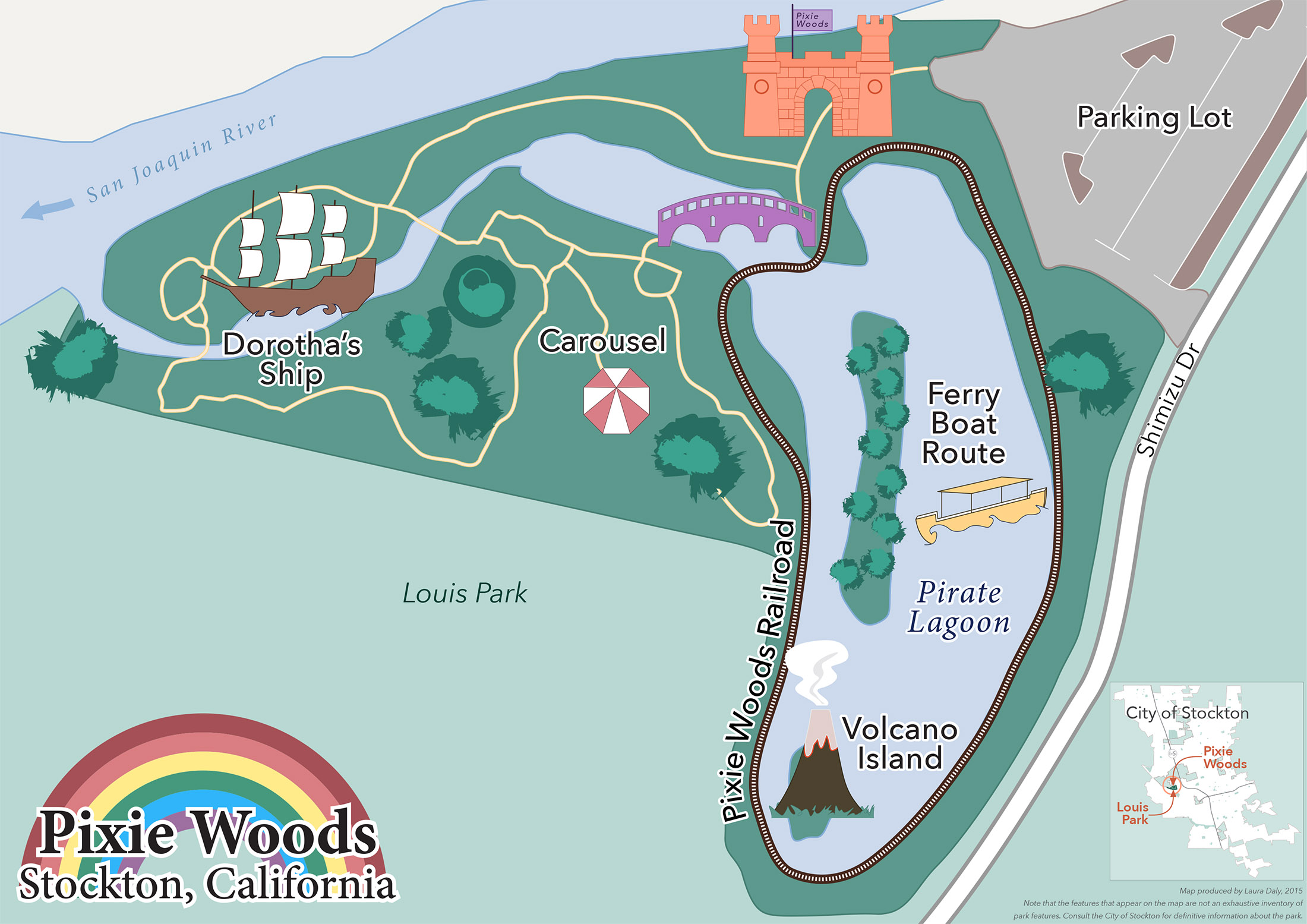 Map of Pixie Woods Amusement Park in Stockton, CA Map created by Laura Daly, using QGIS, Adobe Illustrator Data Sources: OpenStreetMap; City of Stockton GIS; California Protected Lands Database (CPAD); Projection: WGS 84 (though the large scale of the map makes this not very useful information)